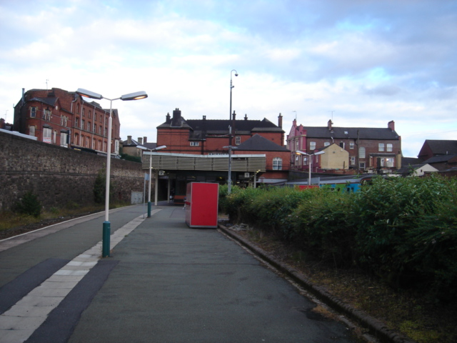 Wigan Wallgate railway station looking towards Southport, with the rear of the main station building visible on the road overbridge.